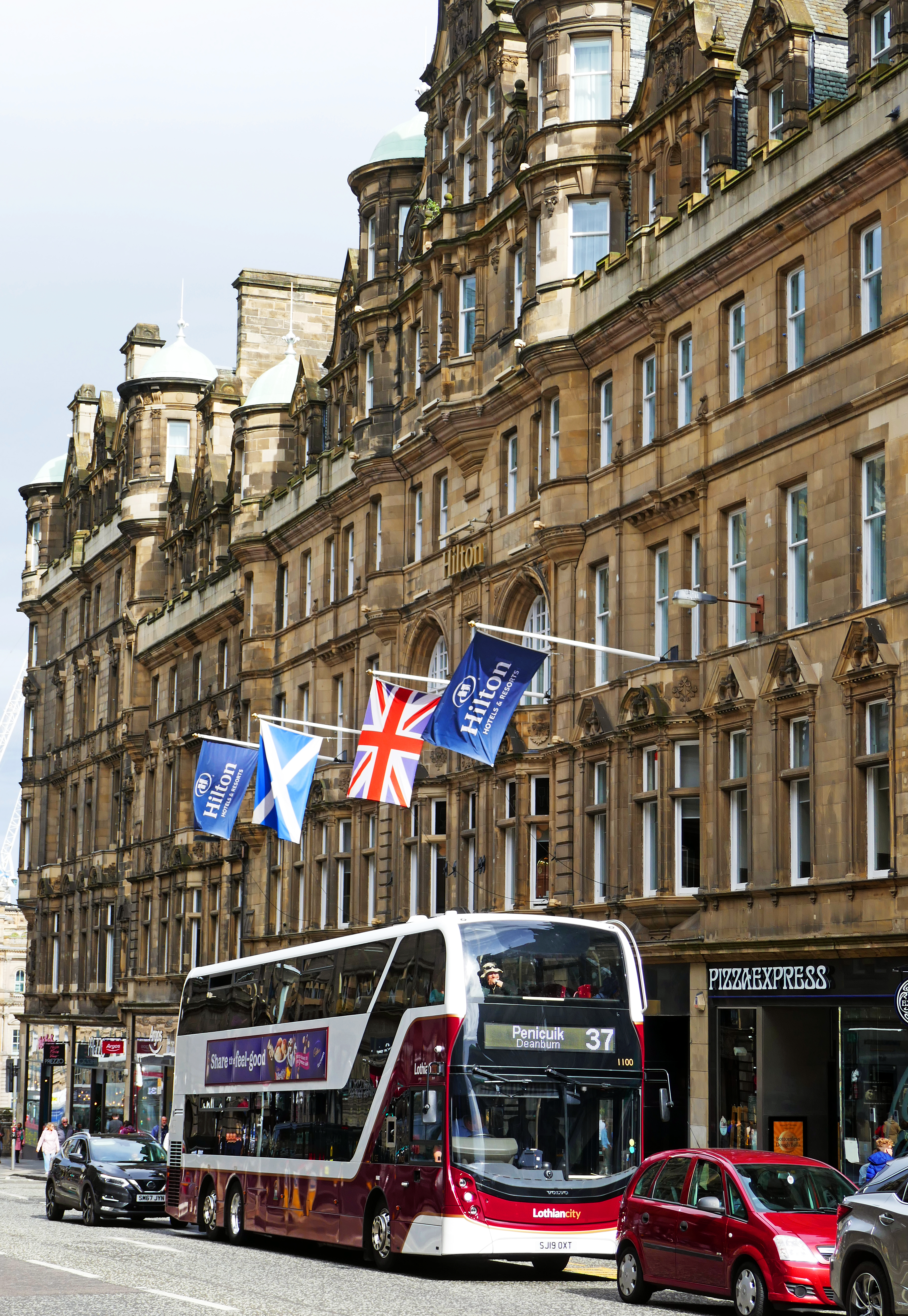 The Hilton Edinburgh Carlton in Edinburgh, Scotland, in the former Patrick Thomson Ltd. department store building (1906).